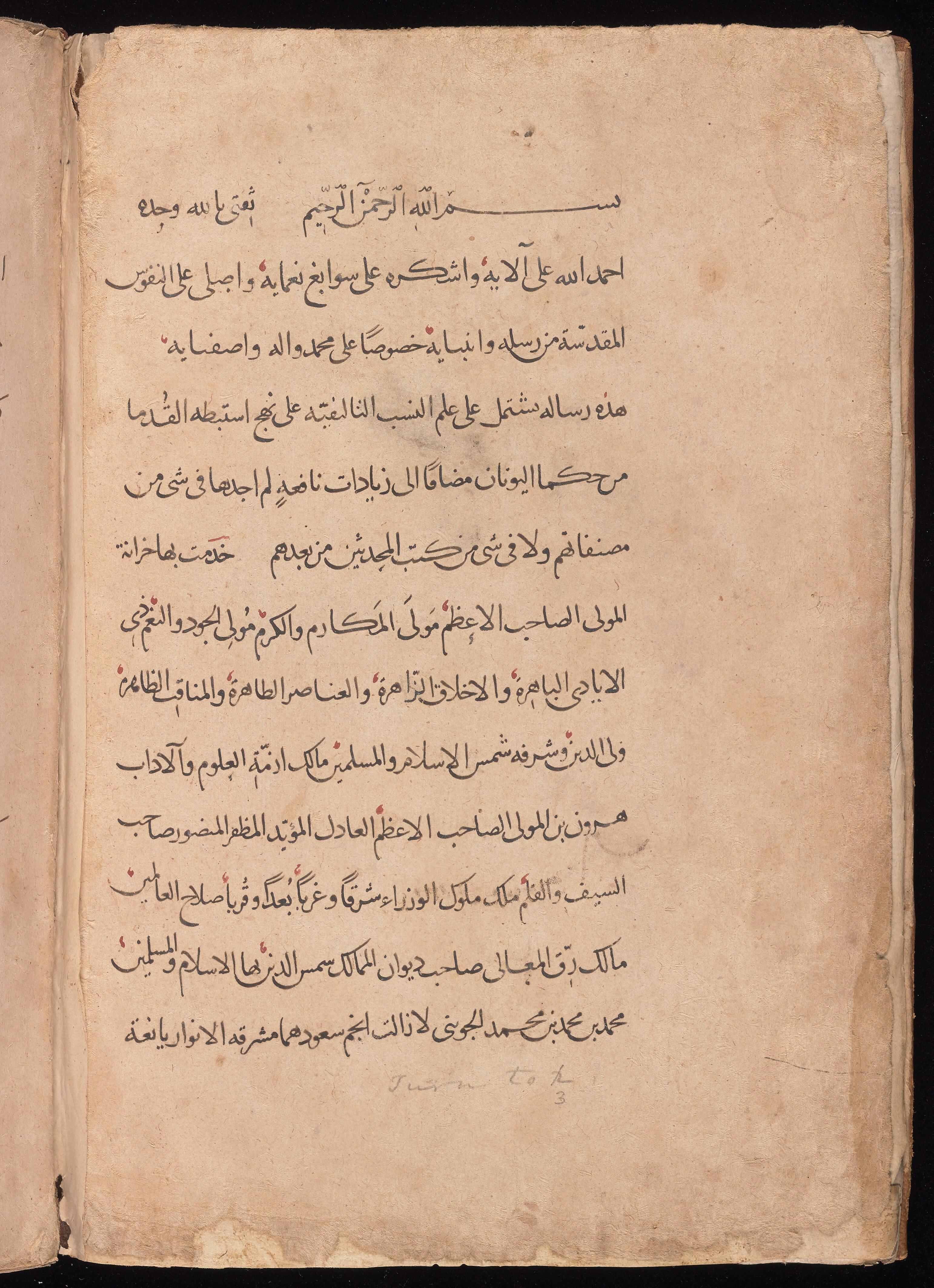 Scanned copy of the first page of this treatise, available at